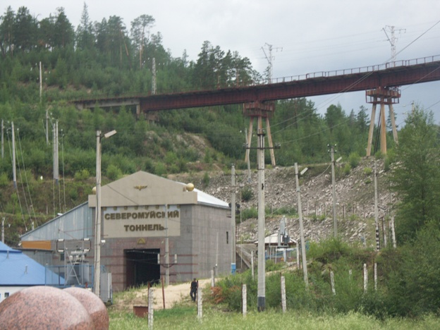 Severomuysky Tunnel, Eastern Portal. The bypass track goes over the bridge.